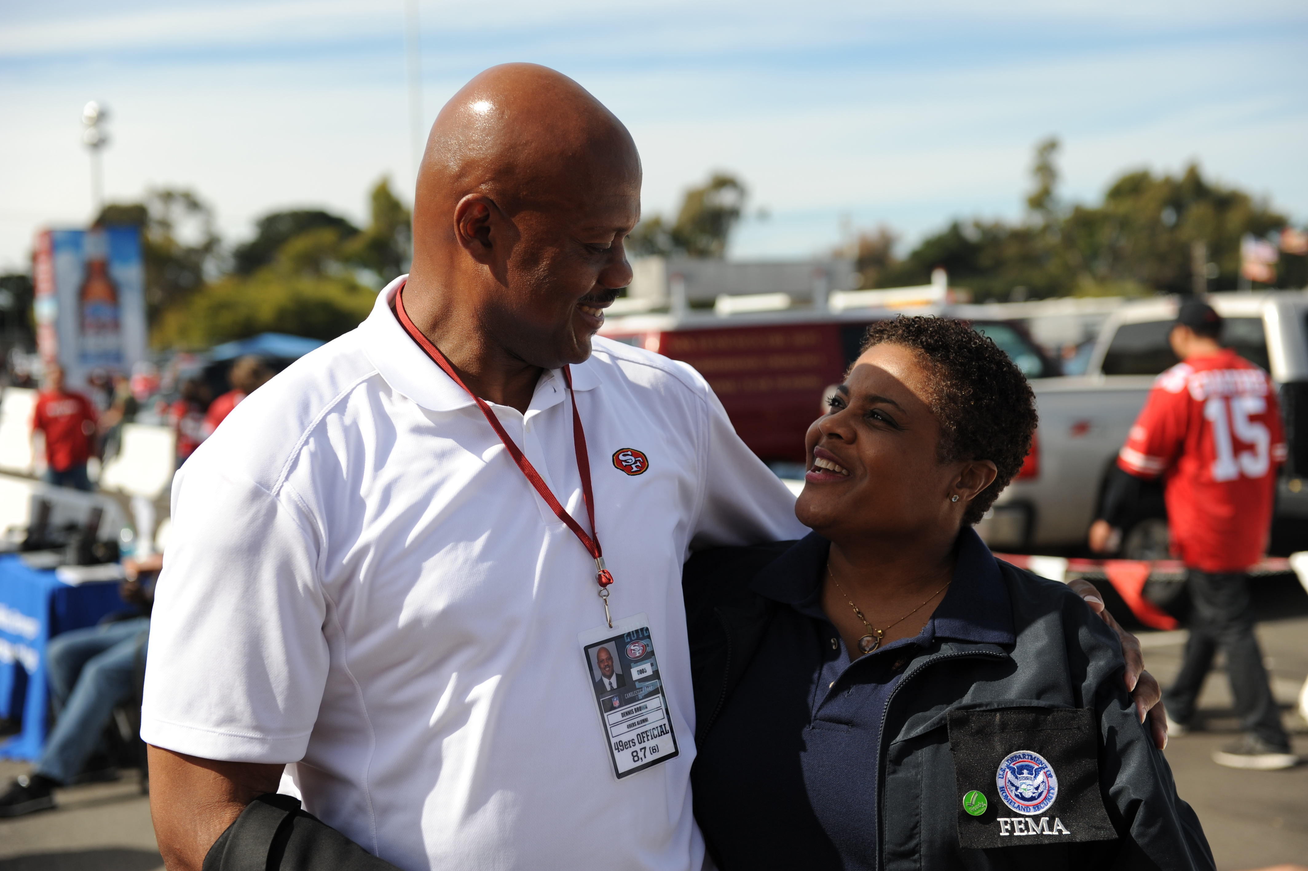 San Francisco, Calif. , Sep. 16, 2012 -- Former San Francisco 49ers Defensive End Dennis Brown and FEMA Region 9 Public Affairs Specialist, Kelly Hudson, take a moment to share preparedness tips at the 2012 National Preparedness Month Bay Area Preparedness Fair.